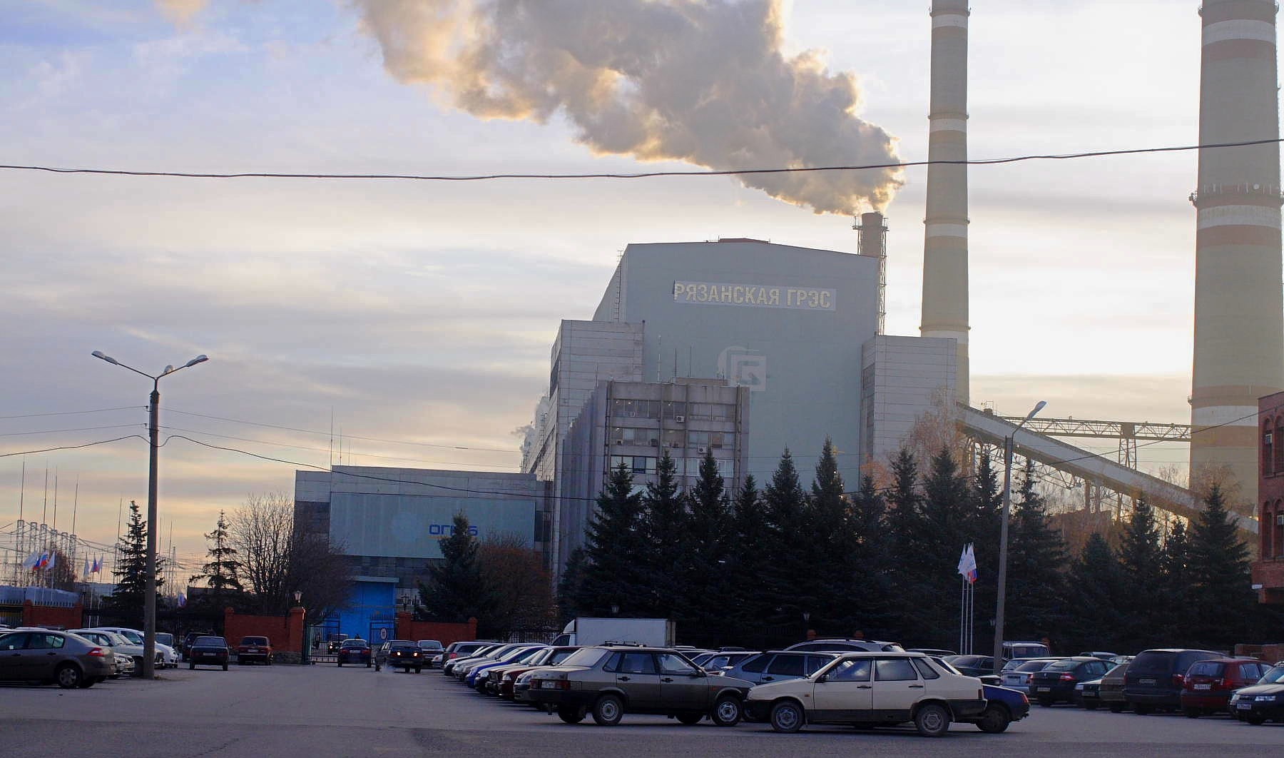 Ryazan Power Station in Novomuchurinsk, Ryazan region, Russia.